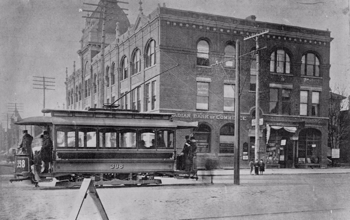 Spadina Avenue, 1895 Original caption: "Northwest corner of College and Spadina in 1895, and one of the first electric streetcars in Toronto. Building in the background was the YMCA, which later was the first building occupied by the Waverley Hotel. "